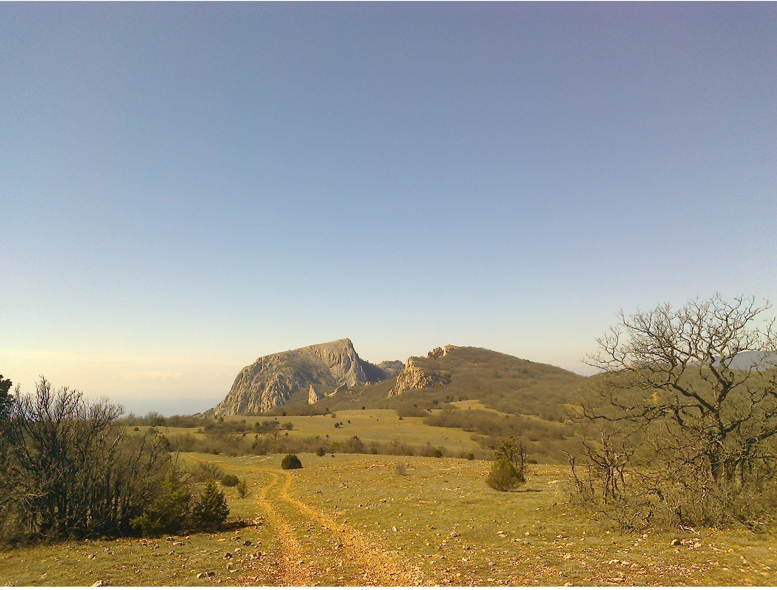 Bajdarska Yayla, a view of the m.Ilyas-Kaya